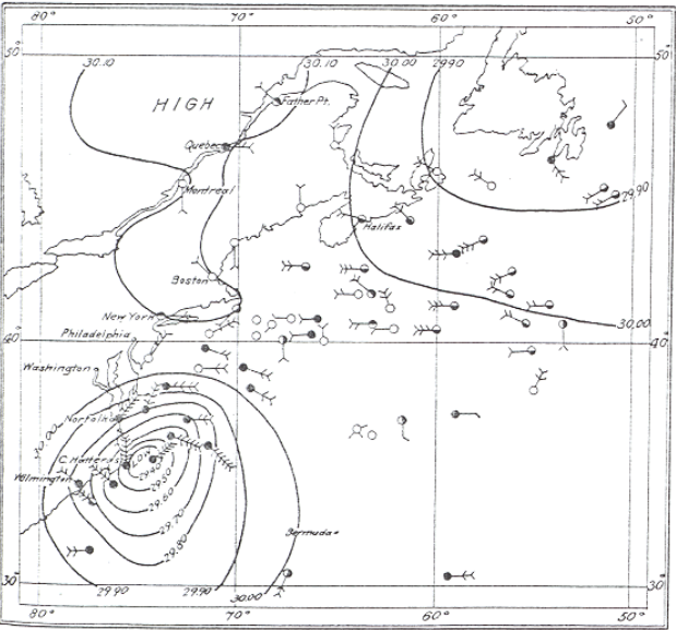 The 1899 San Ciriaco hurricane approaching landfall in North Carolina